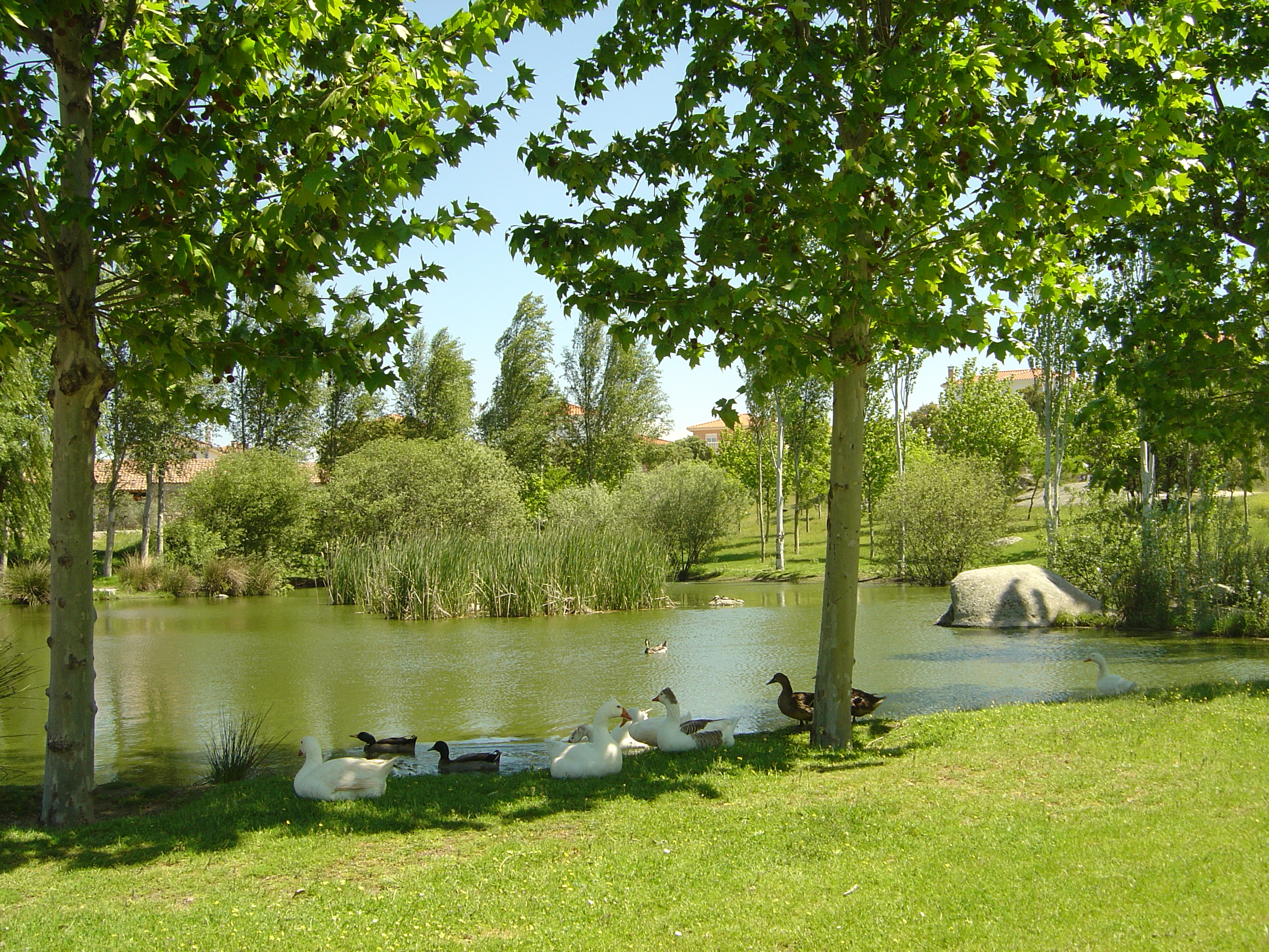 Los Jardines del Lago, Chapinería, Madrid.